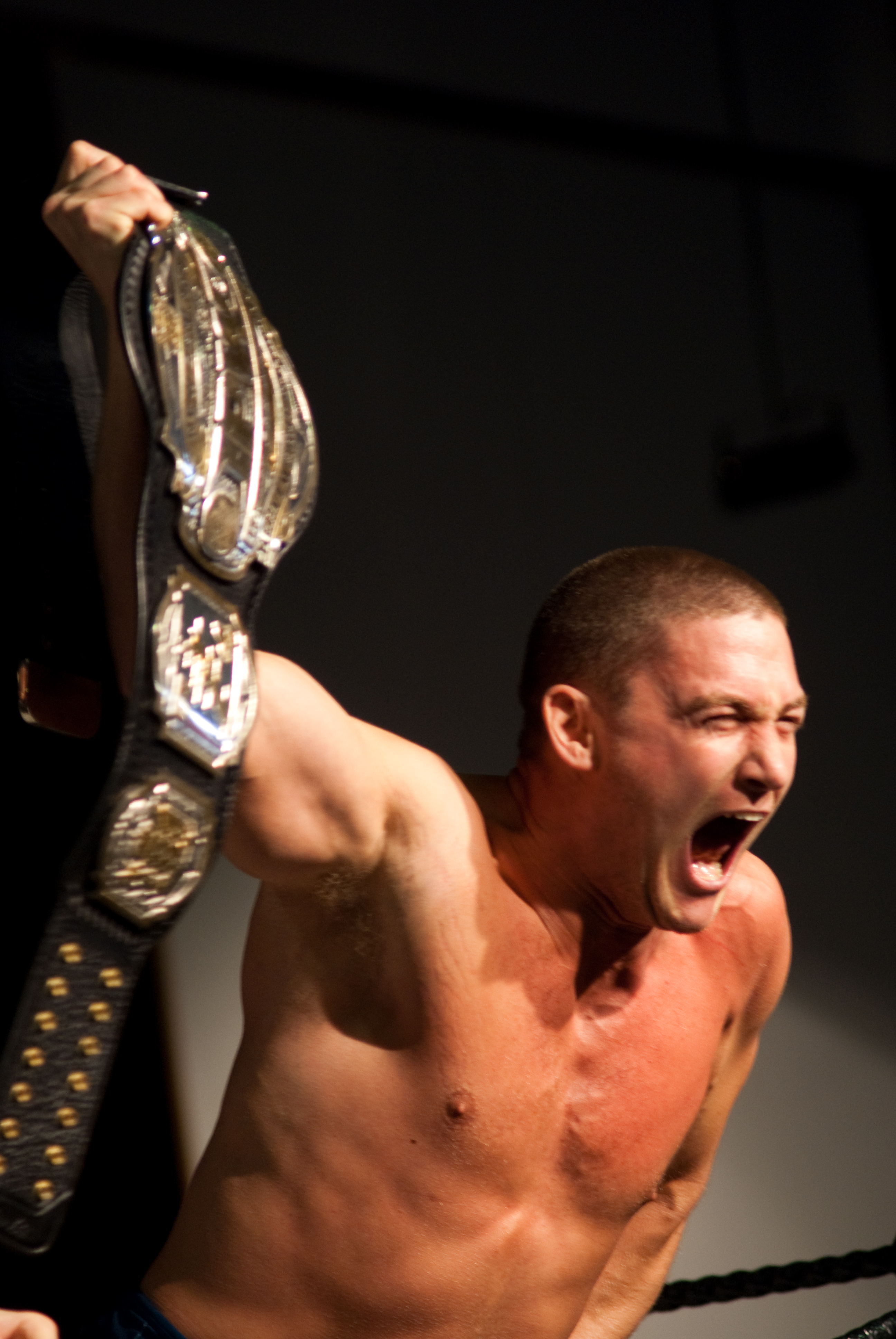 IPW wrestling in Armageddon Expo 2009. Location: ASB Showgrounds, Auckland, NZ